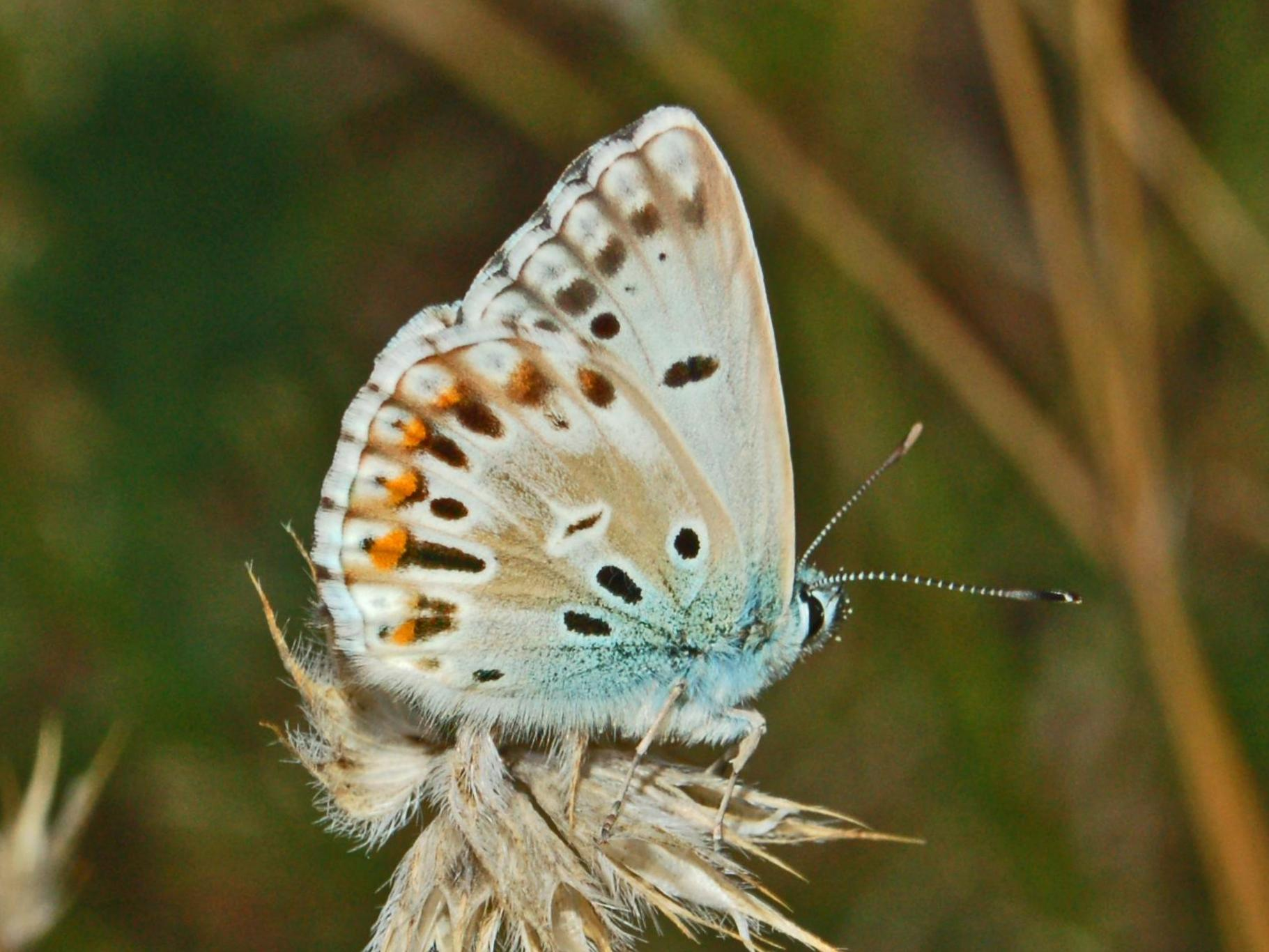 Polyommatus coridon. Aberrant male. Genova, Italy